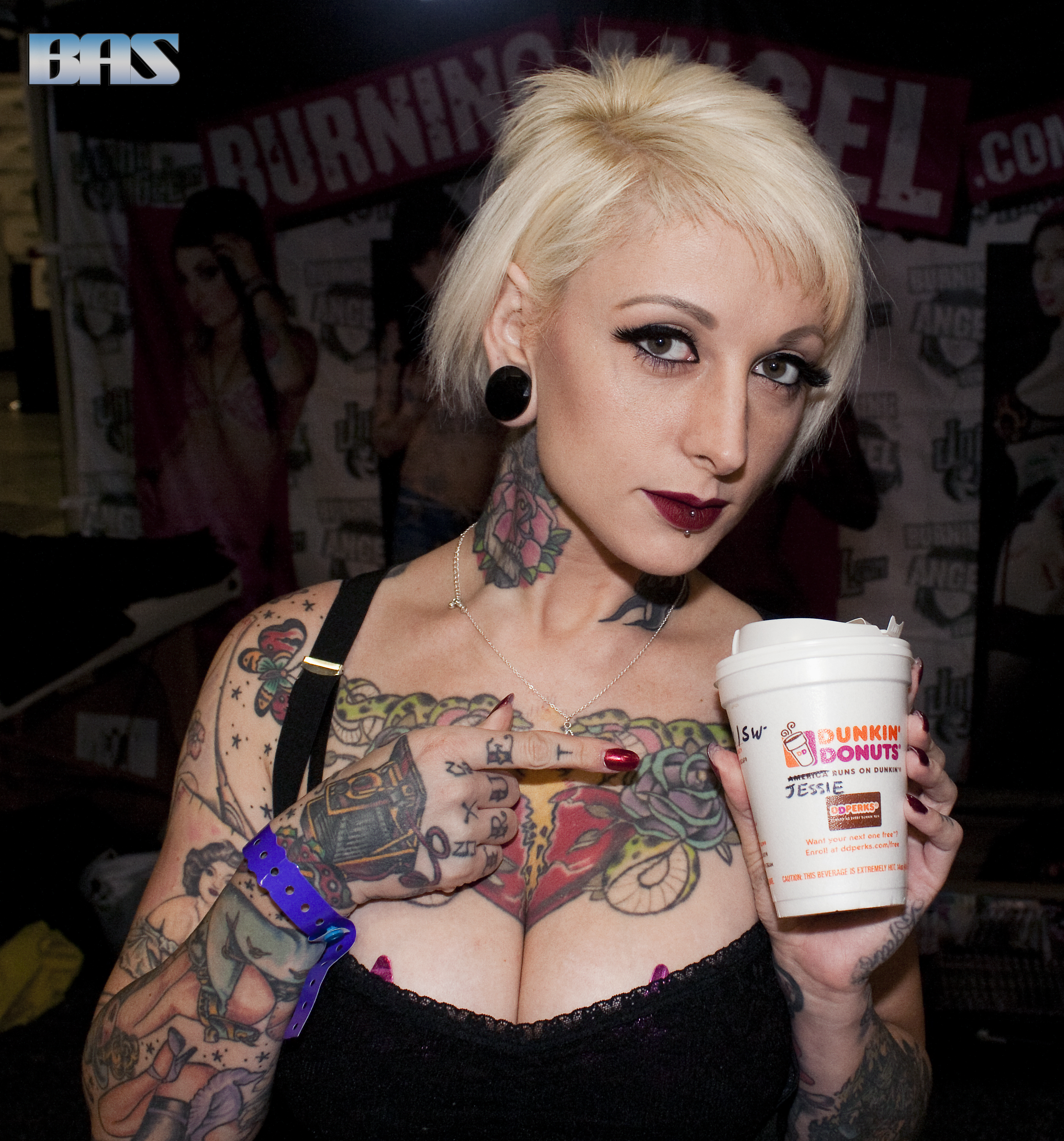 Jessie Lee at Exxxotica New Jersey 2014